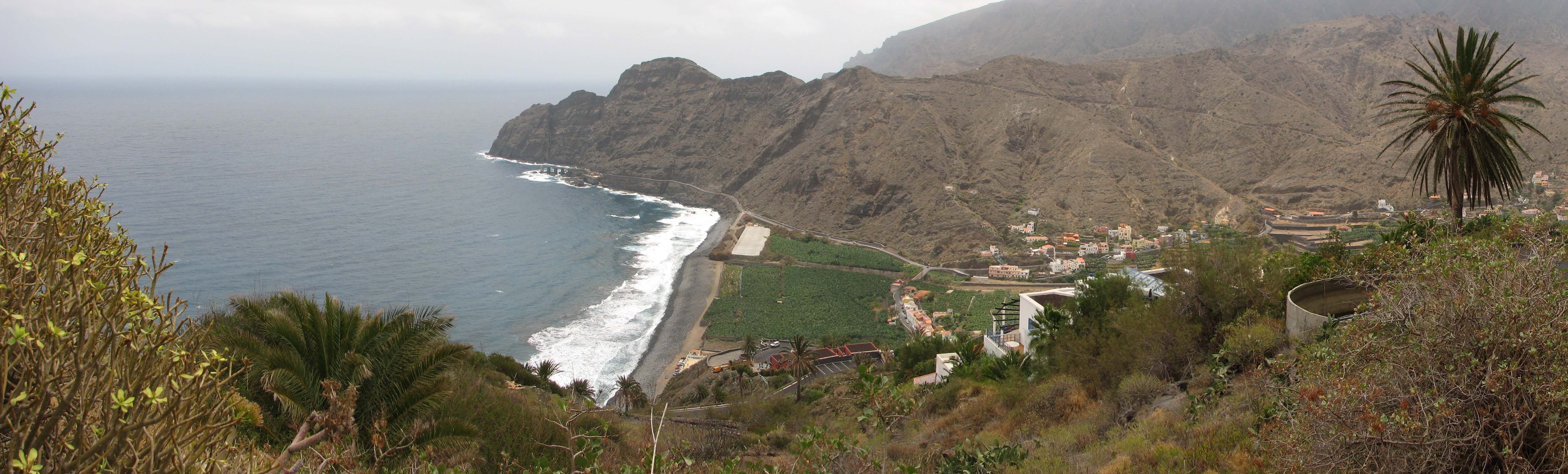 hermigua, gomera, islas canarias, landscape, beach, banana, panorama